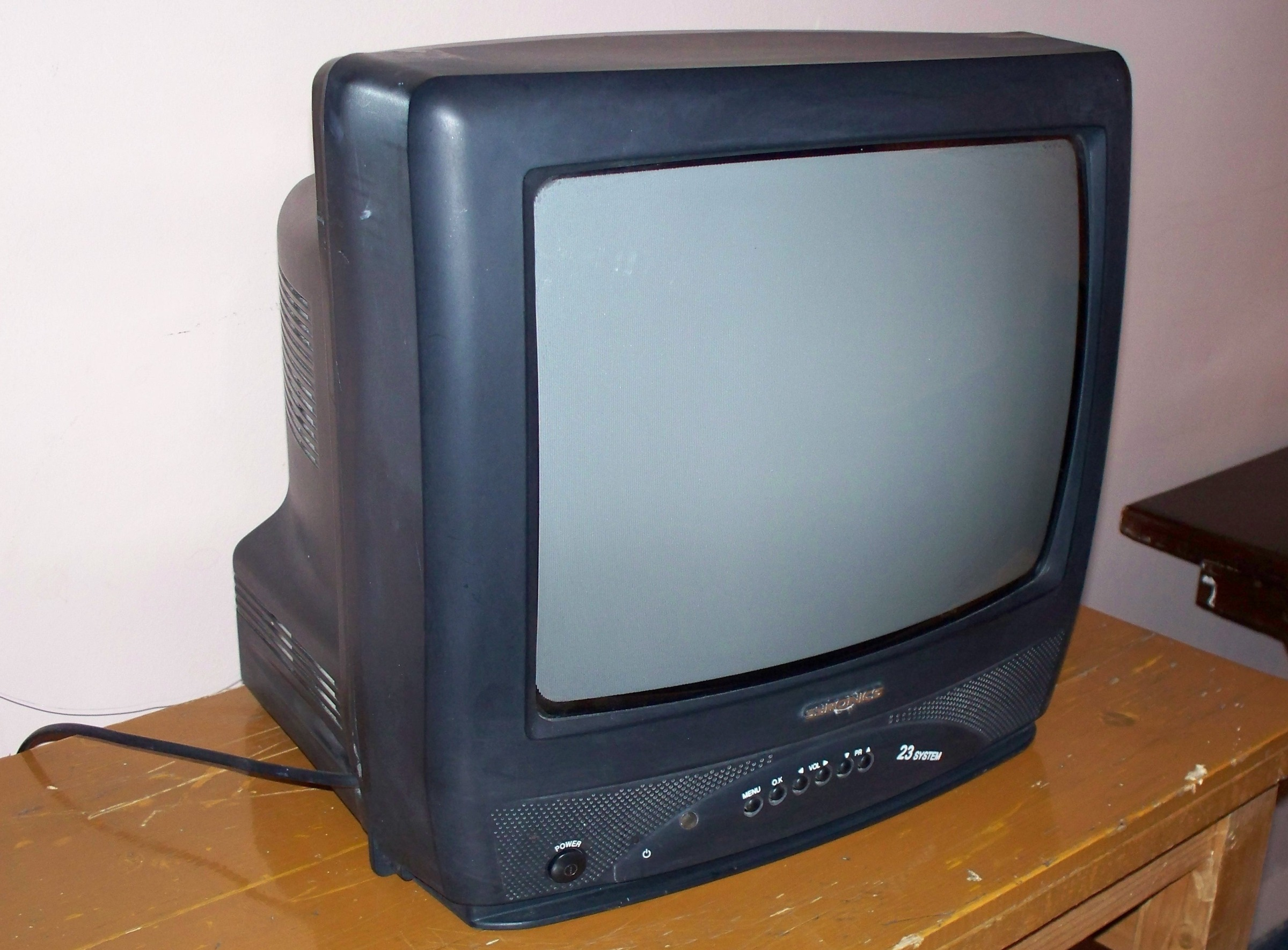 A SYRONICS television set of syrian production.